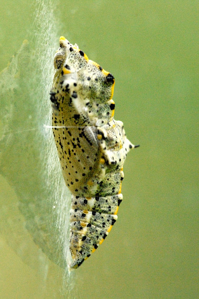 Pieris brassicae pupa; Picture taken in Commanster, Belgian High Ardennes.